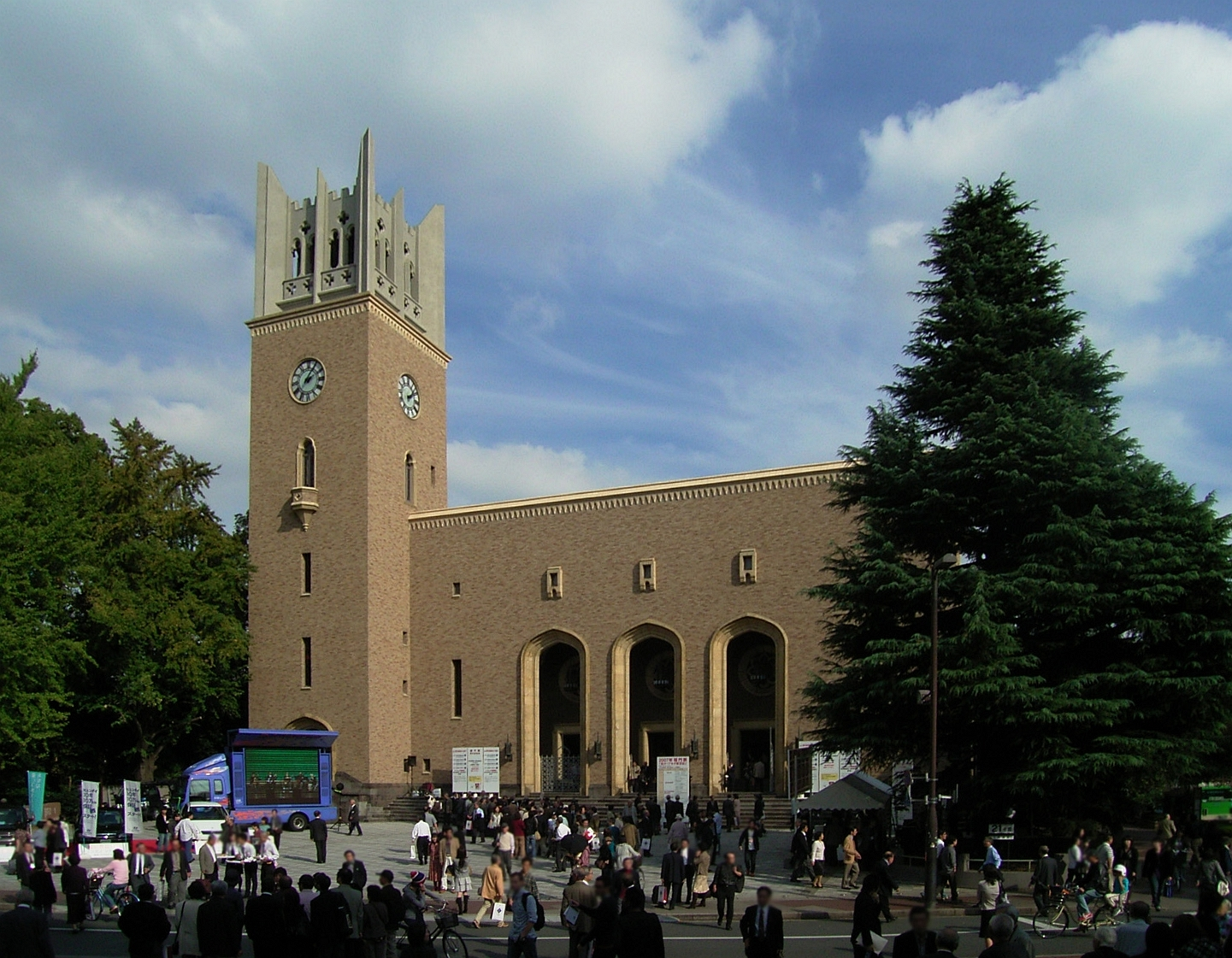 “Okuma lecture hall” Waseda University “Okuma lecture hall” Waseda University address = 1-6-1, Nishiwaseda, Shinjuku-ku, Tokyo